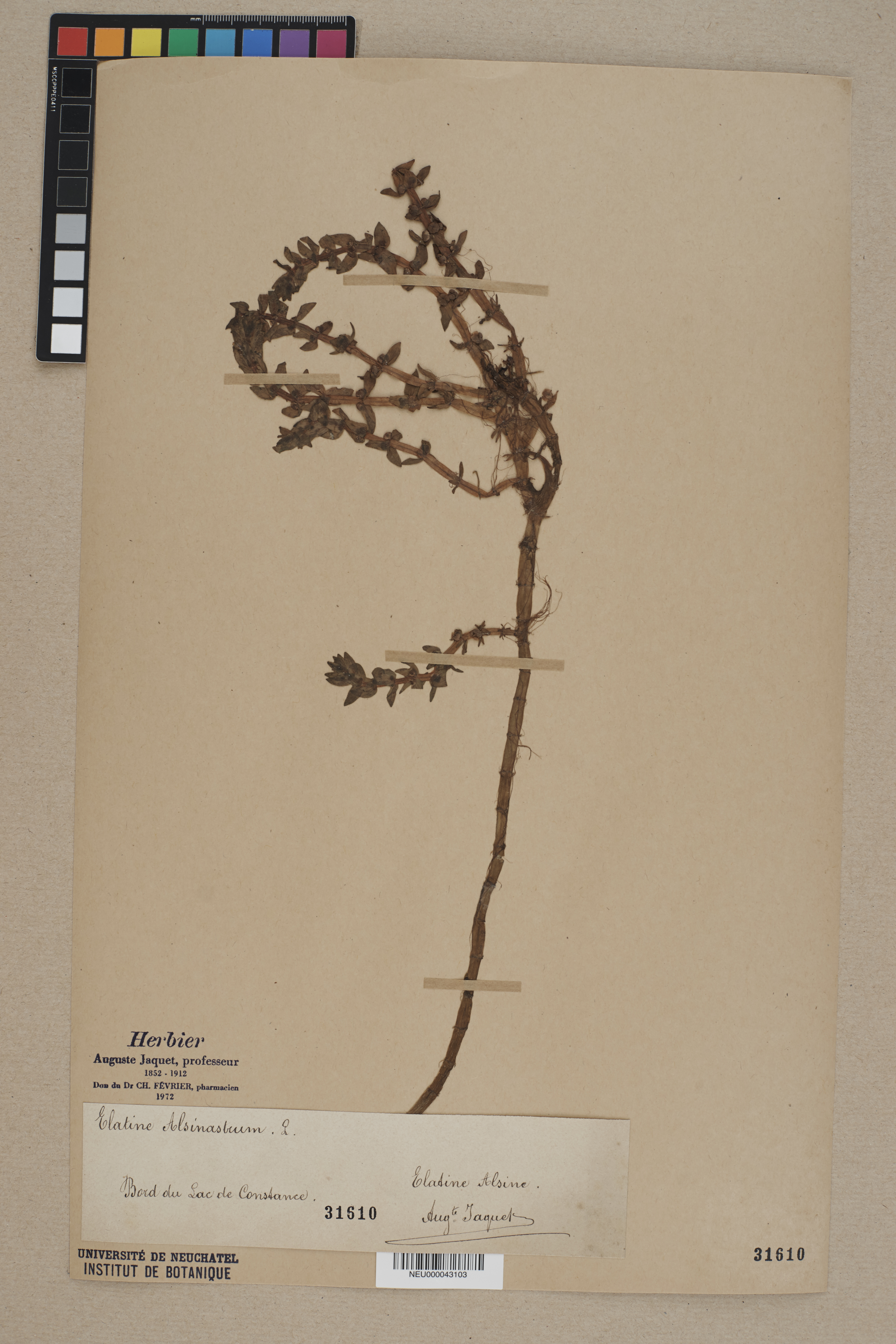 Dried pressed specimen of Elatine alsinastrum